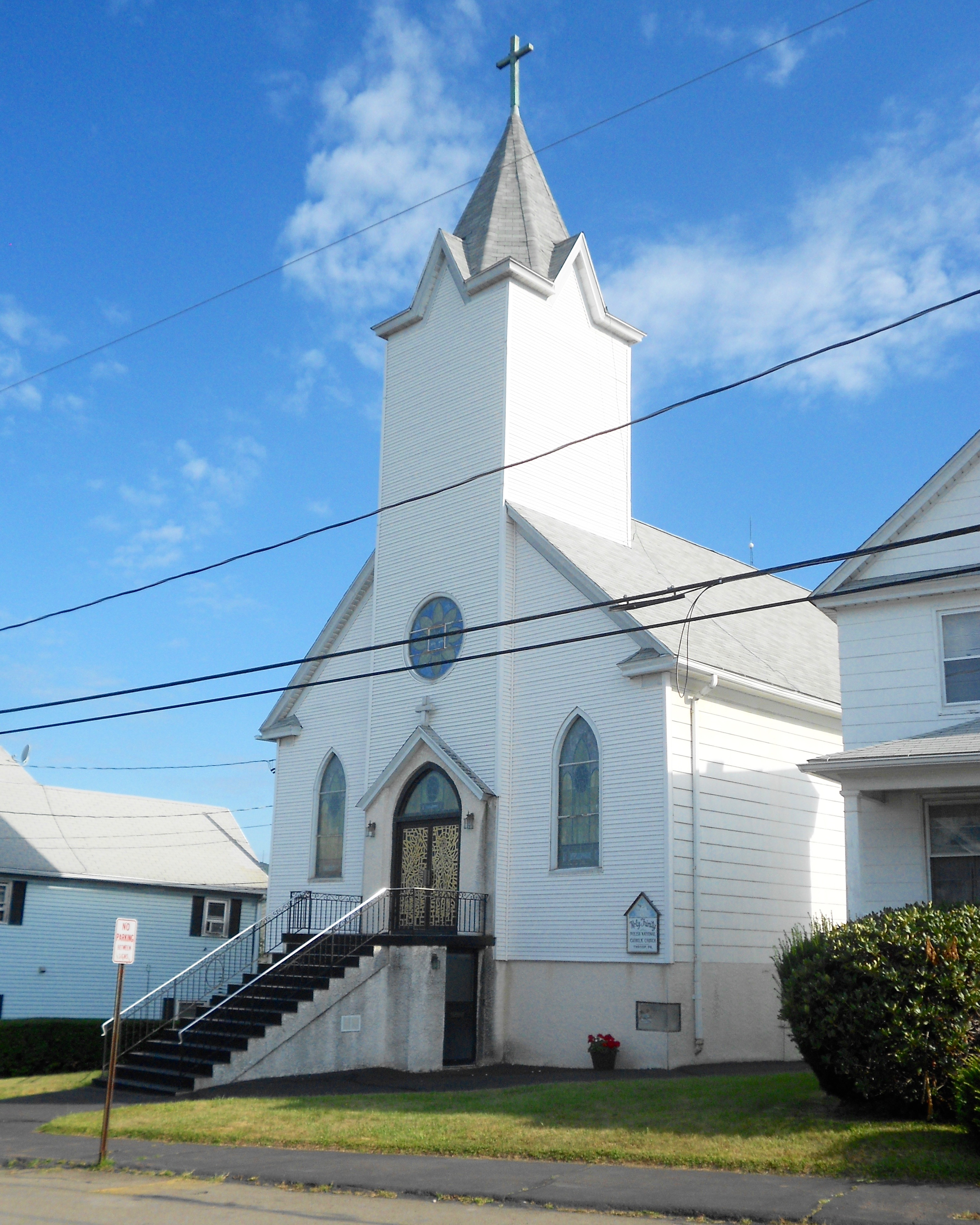 Holy Trinity Polish National Catholic Church, Throop, Pennsylvania. (The Polish National Catholic Church is a Polish-American denomination separate from the Roman Catholic Church. See its Wikipedia article.)